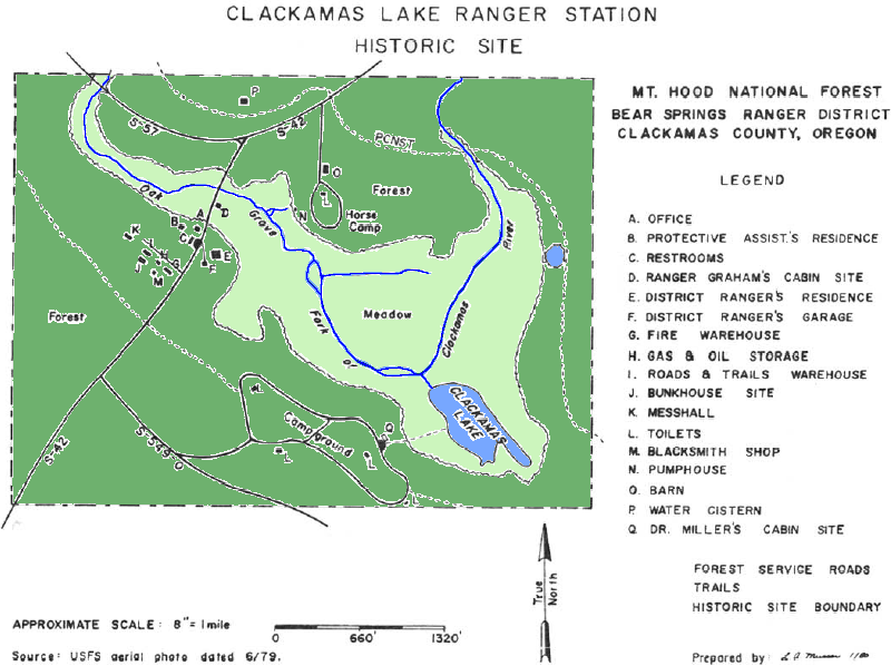 Map of the Clackamas Lake Ranger Station Historic District in the Mount Hood National Forest of Oregon